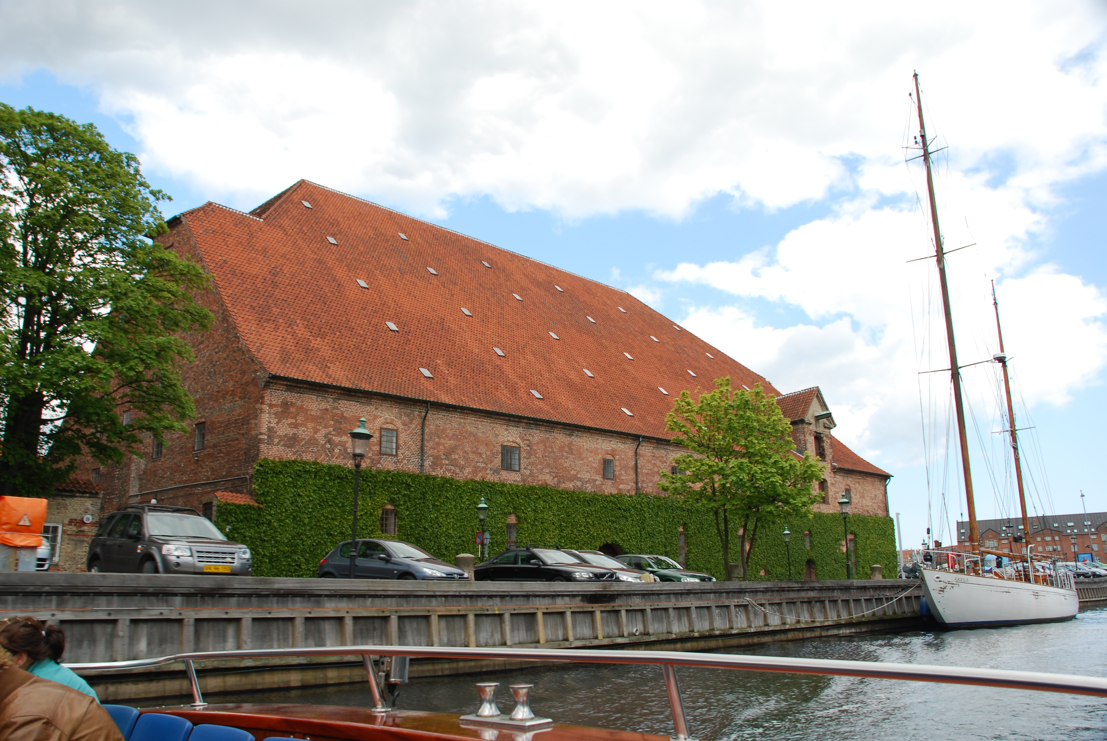 Christian IV's Brewhouse seen from Frederiksholms Kanal in Copenhagen, Denmark